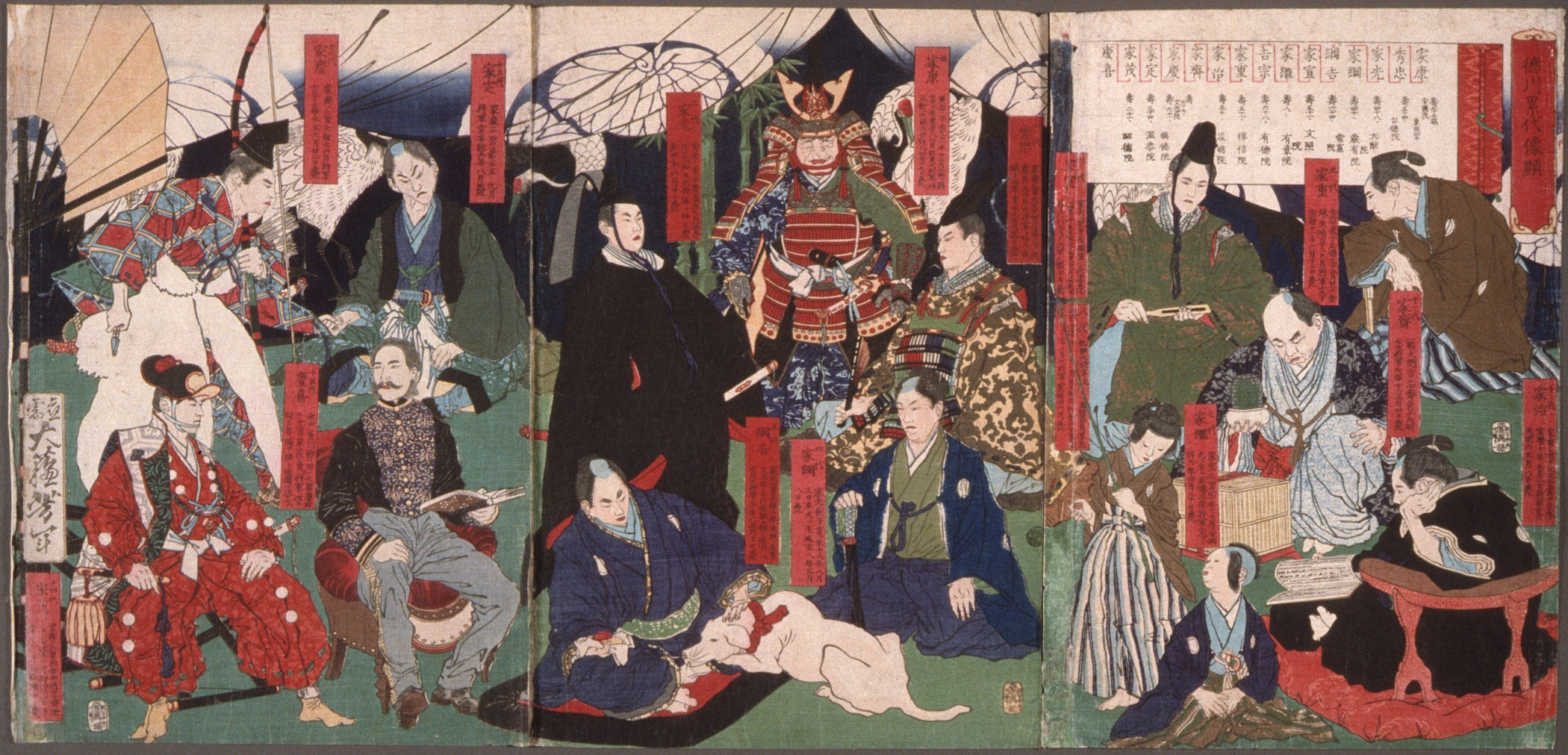 Japan, 19th century Prints; woodcuts Triptych; color woodblock prints 13 11/16 x 28 3/16 in. (34.7 x 71.5 cm) Herbert R. Cole Collection (M.84.31.143a-c) Japanese Art